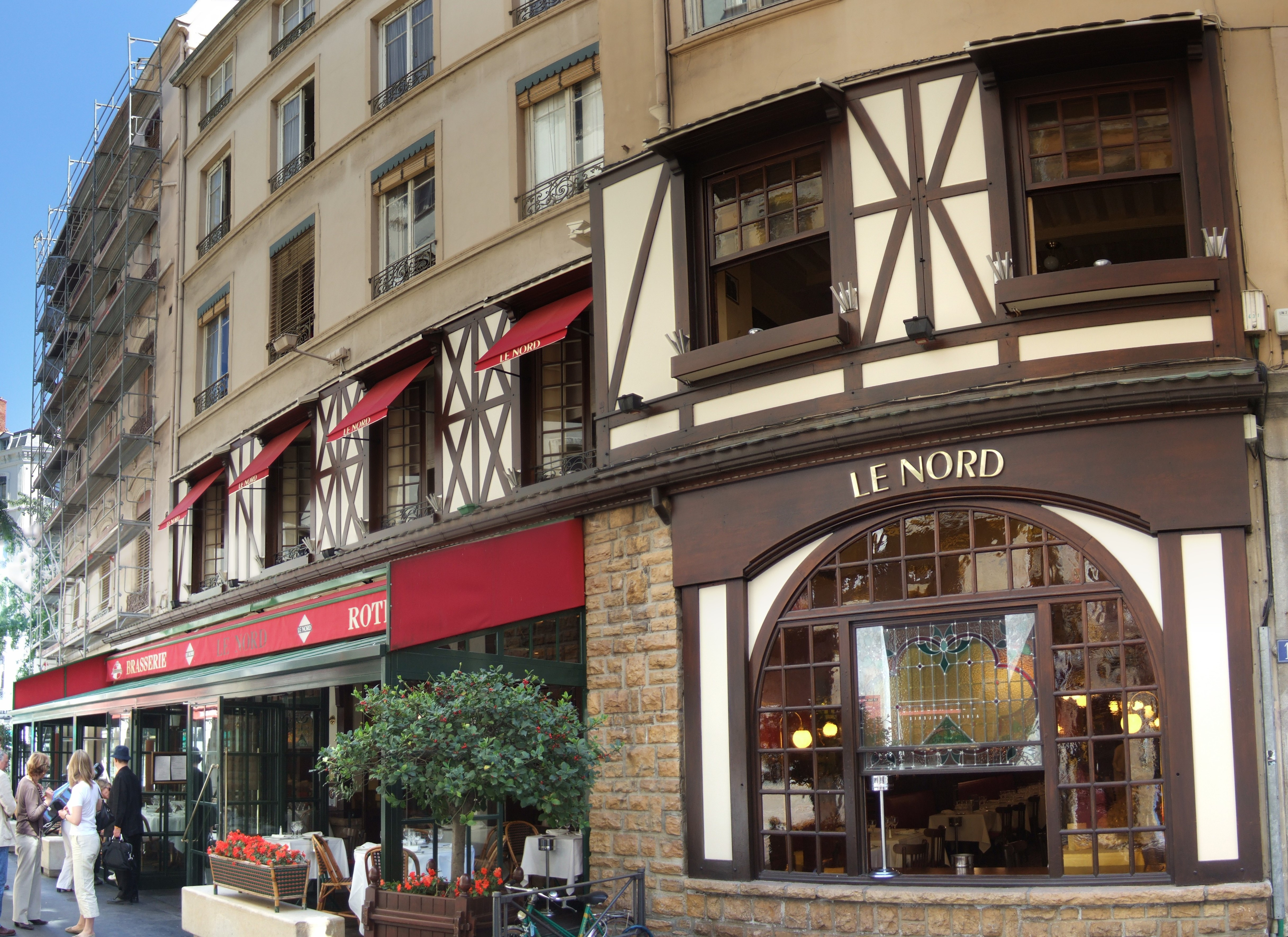 One of Paul Bocuse's brasseries, "Le Nord" in Union Beach. By me. Image stitched from 6 images.